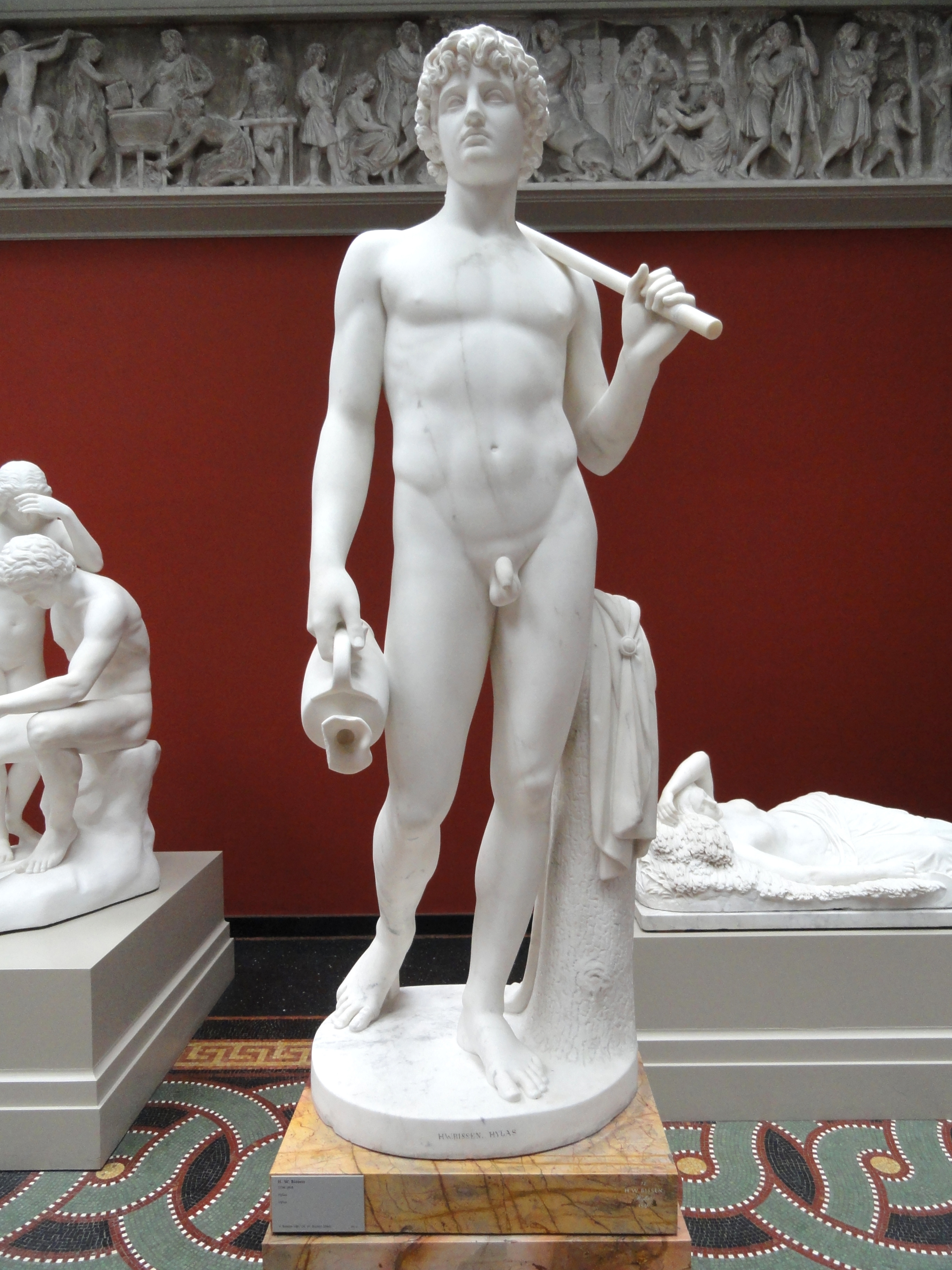 Herman Wilhelm Bissen (1798–1868), Hylas (1846). Exhibit in the Ny Carlsberg Glyptotek, Dantes Plads 7, Copenhagen, Denmark. The museum permitted photography without restriction. This artwork is now in the public domain because the artist died more than 70 years ago.